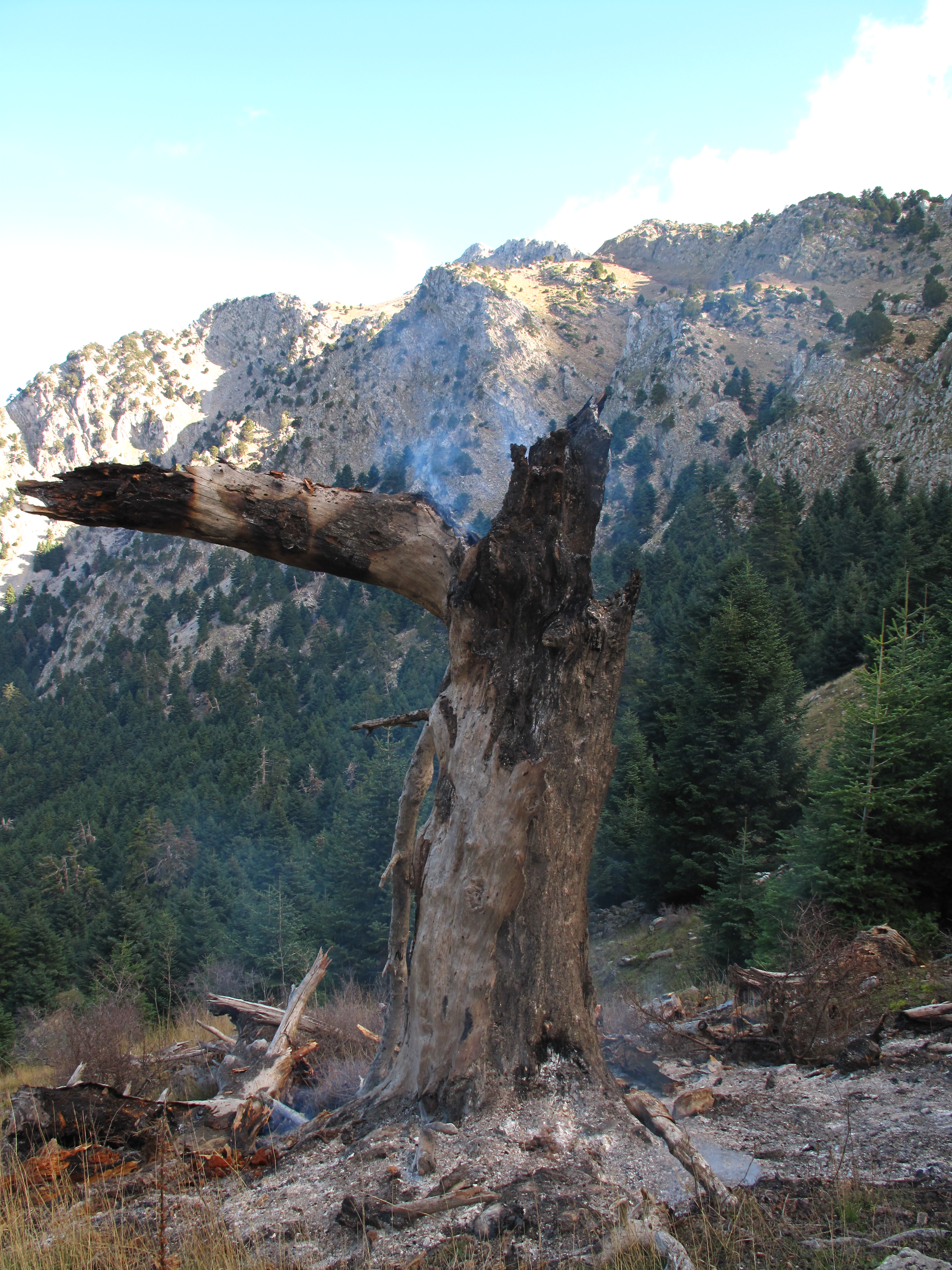 A tree stuck by a lightning in a forest on the Mount Erymanthos, Greece.